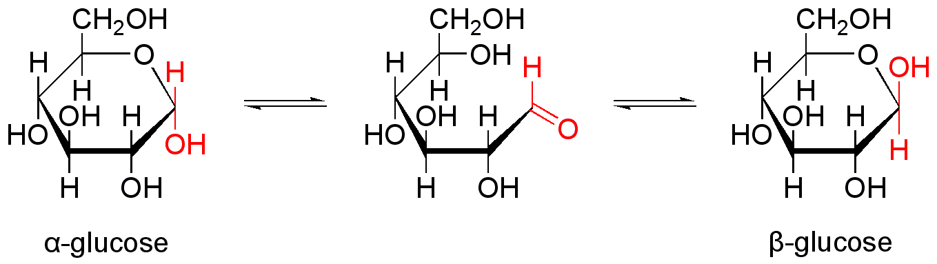 Schematic representation of the equilibrium of glucose.